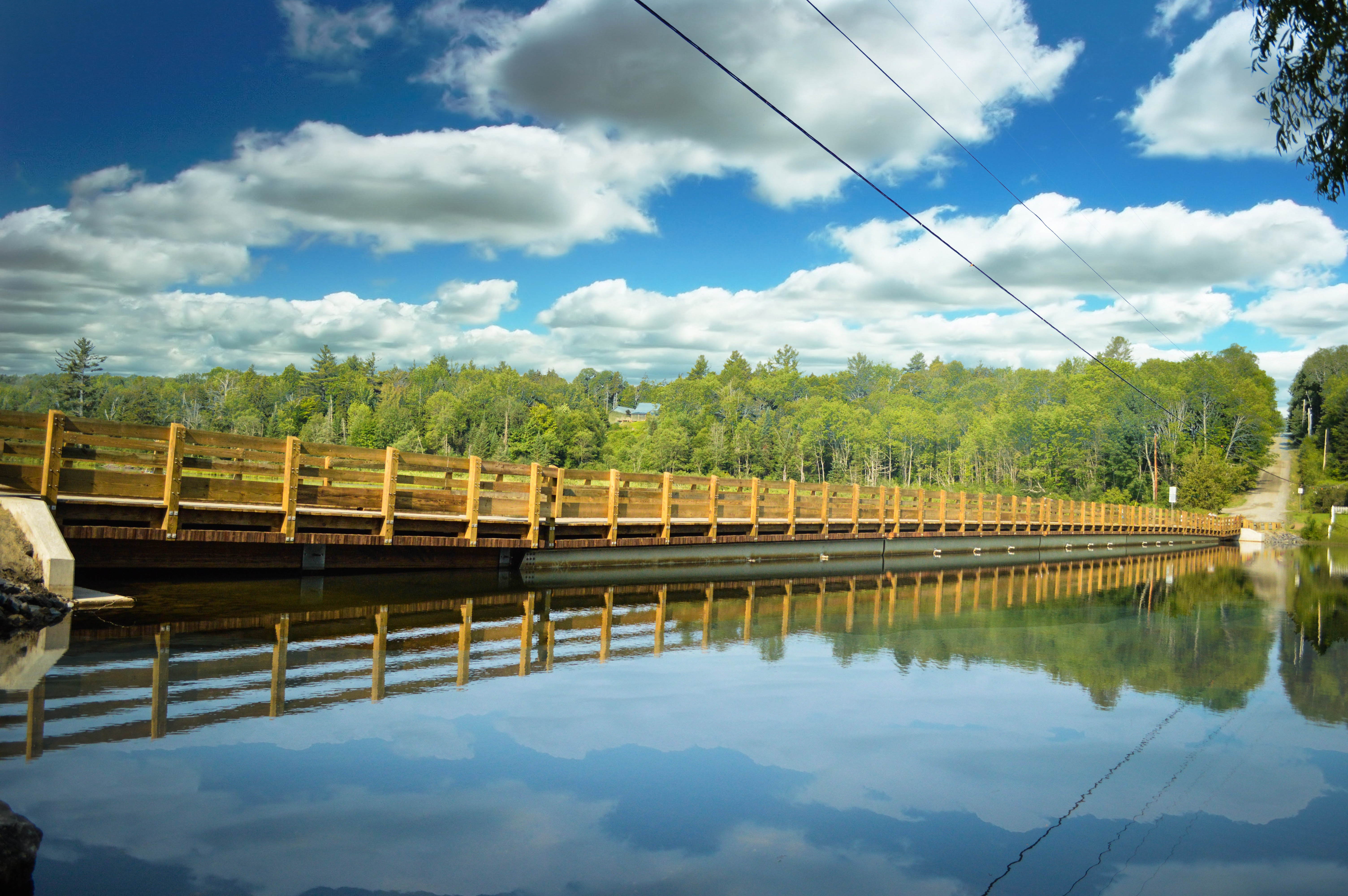 Floating bridge on Sunset Lake in Brookfield, VT built by Miller Construction, Inc in 2015 Photo by Krystal DeCoteau